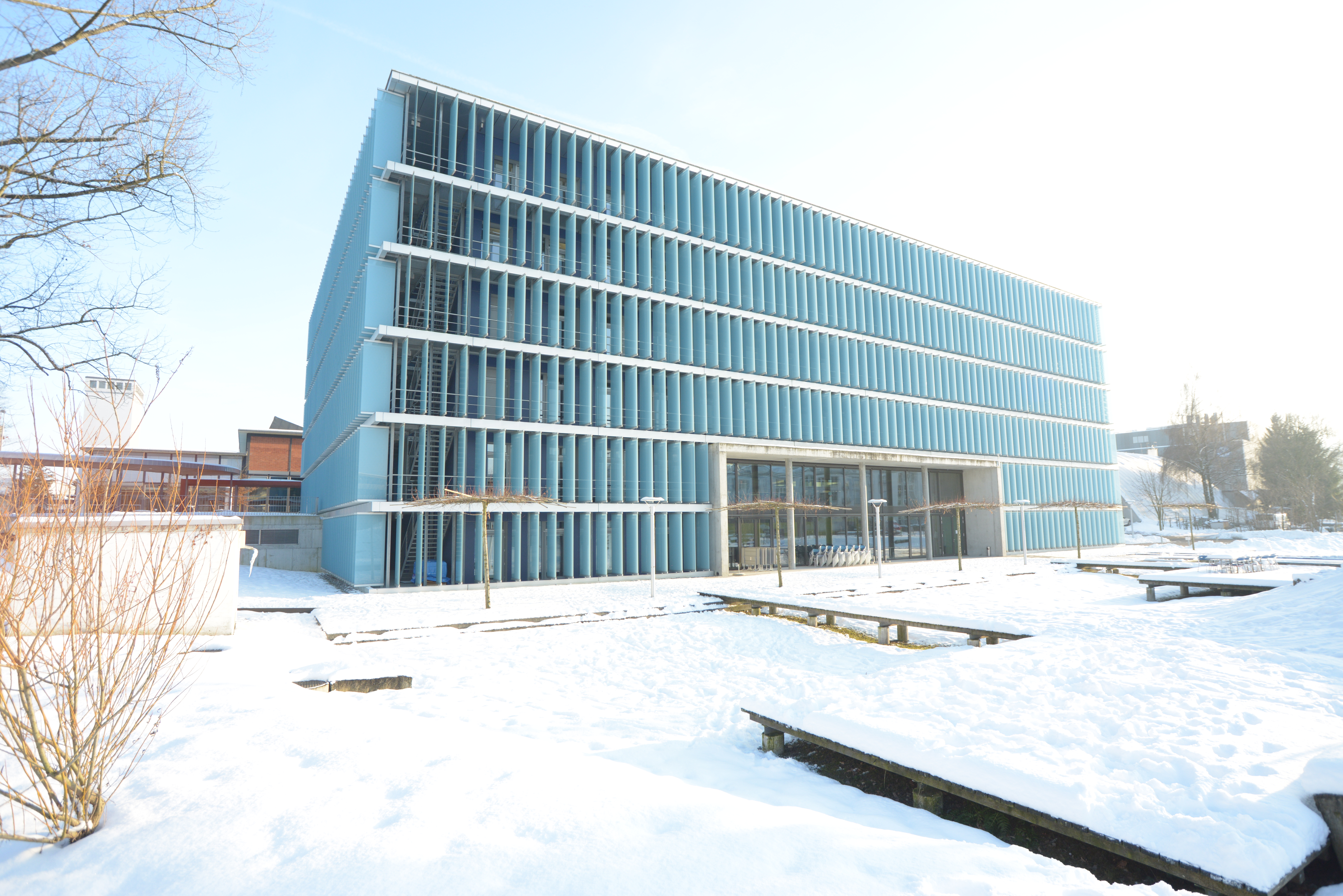 Eawag Forum Chriesbach building in winter